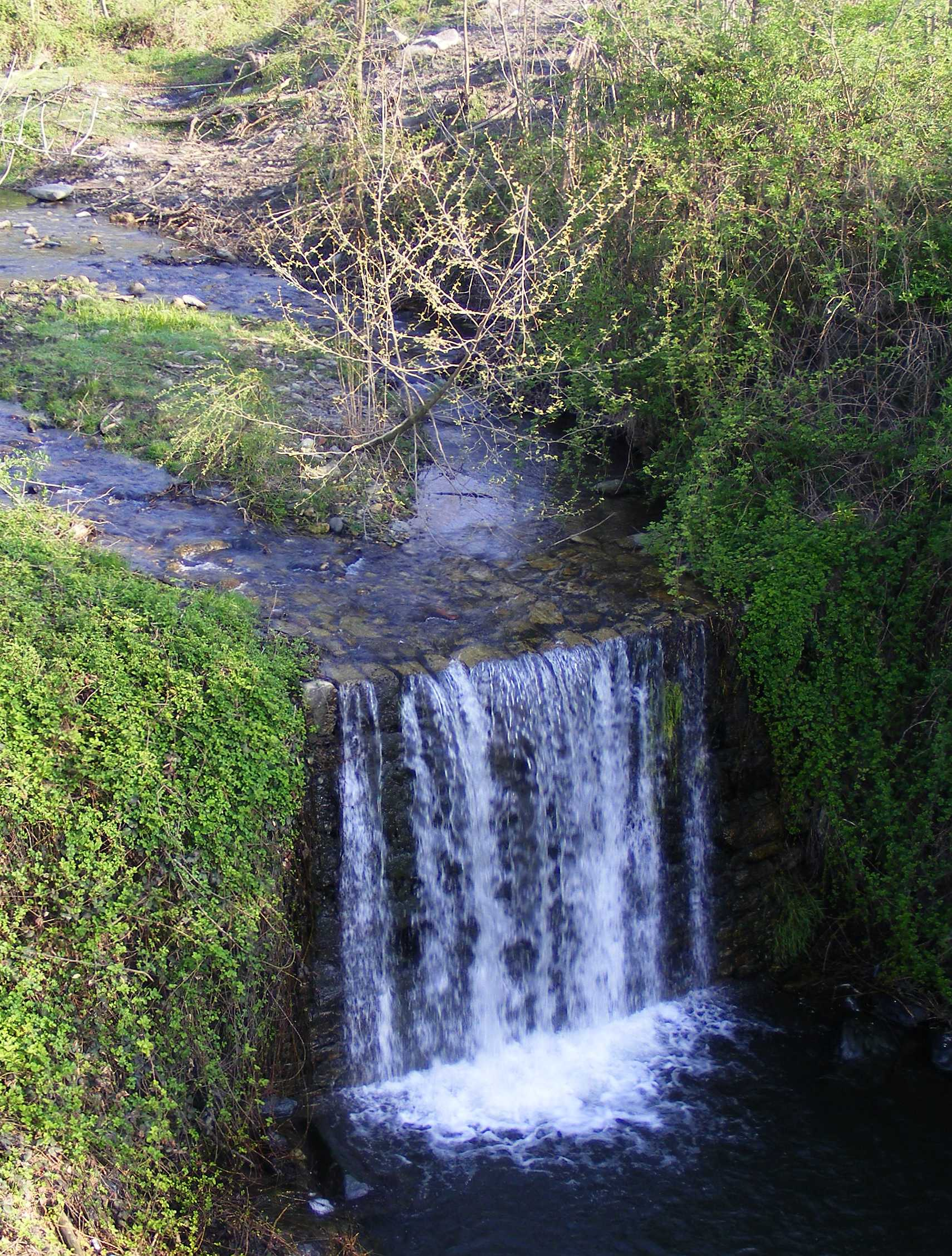 Weir on Lemina creek at San Pietro Val Lemina (TO, Italy)